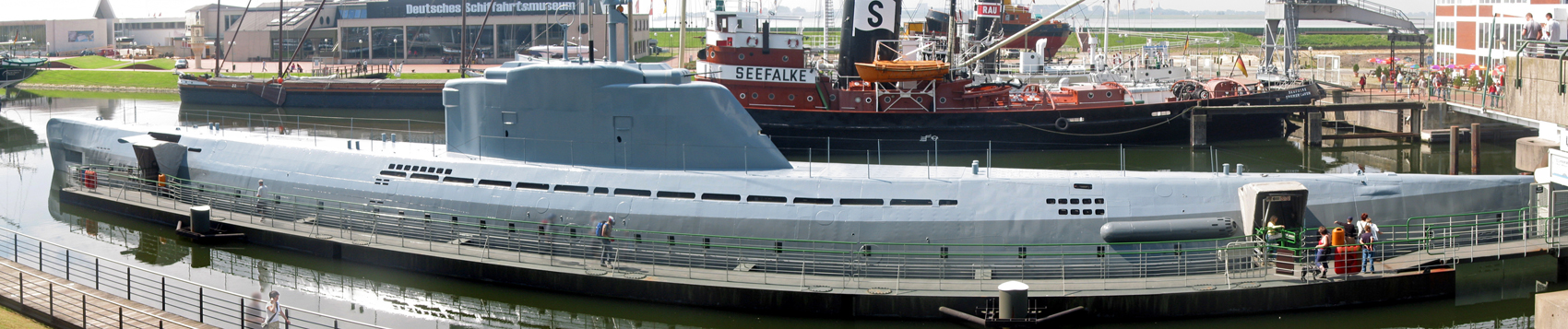 Panoramic view of The Wilhelm Bauer. Originally uploaded to the English Wikipedia by Chrisgj6 (Chris Jones) and uploaded to Wikimedia Commons by Garitzko